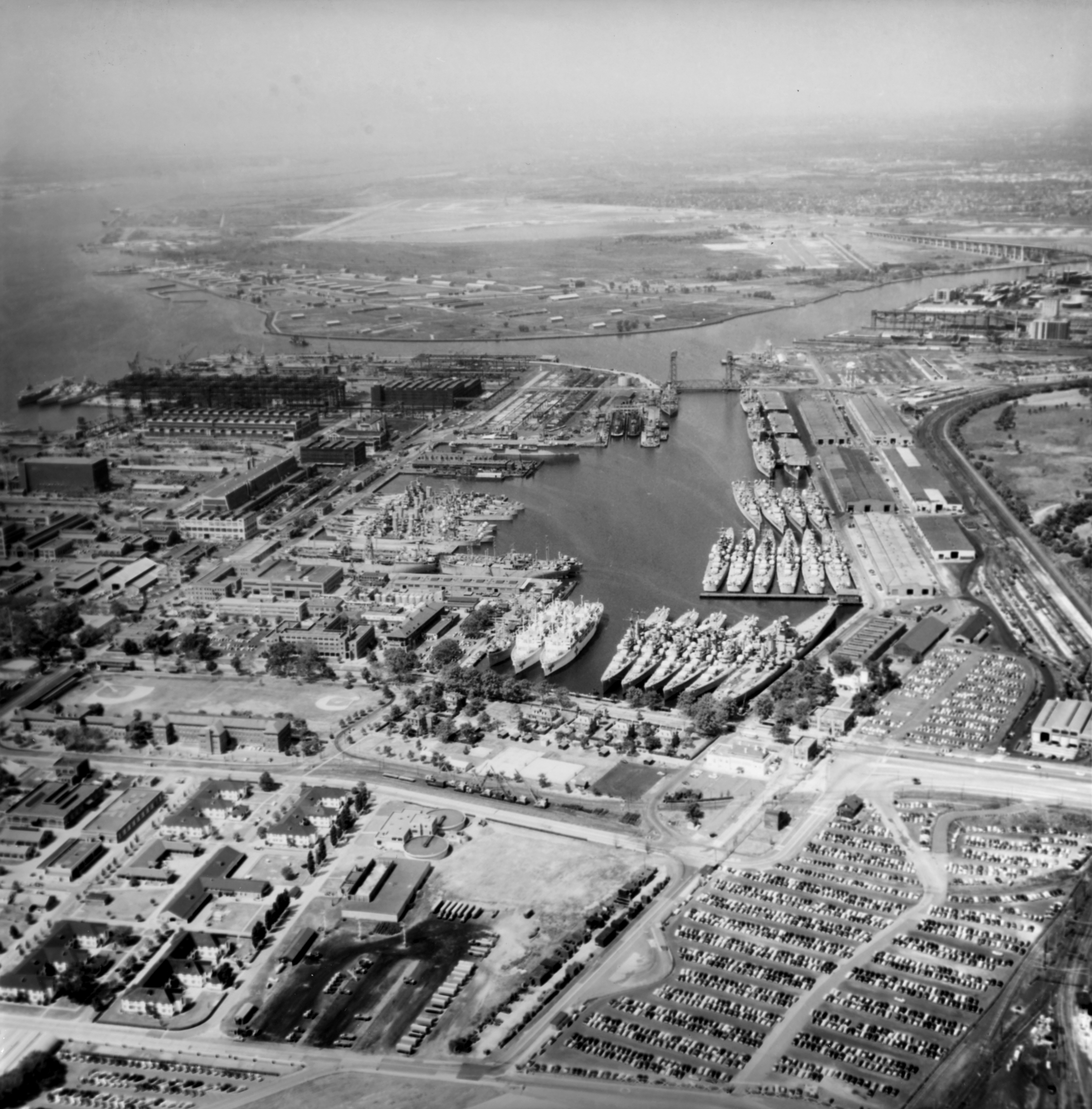 Aerial view of the Reserve Basin of the U.S. Navy Philadelphia Naval Shipyard, Philadelphia, Pennsylvania (USA) on 19 May 1955 with numerous cruisers, escort carriers, and auxiliaries in reserve. The nearest ship is the never-completed large cruiser Hawaii (CB-3), which lacks its previously-installed three 12" gun turrets. The cruisers outboard of Hawaii are (in unknown order) the Honolulu (CL-48), Columbia (CL-56), Denver (CL-58), Galveston (CL-93), and Portsmouth (CL-102). To their left are the Tranquillity (AH-14), Sanctuary (AH-17), and Pocono (AGC-16). Behind the Hawaii (from left to right) are Montpelier (CL-57), Houston (CL-81), Huntington (CL-107), Savannah (CL-42), Cleveland (CL-55), and Wilkes-Barre (CL-103). Beyond them (from left to right) are Wichita (CA-45), Oregon City (CA-122), Chester (CA-27), and New Orleans (CA-32). The cruisers on the left side of the basin (from front to rear) are the Minneapolis (CA-36), Tuscaloosa (CA-37), San Francisco (CA-38), Augusta (CA-31), Louisville (CA-28), and Portland (CA-33). Among the other ships in reserve in the basin are the Fomalhaut (AE-20), Webster (ARV-2), Albemarle (AV-5), Tangier (AV-8), Pocomoke (AV-9), Chandeleur (AV-10), Abatan (AW-4), Mission San Carlos (AO-120), Prince William (CVE-31), Anzio (CVE-57), Block Island (CVE-106), Palau (CVE-122), and San Carlos (AVP-51). Moored in the shipyard at the extreme left are the Tennessee (BB-43), California (BB-44), and Cabot (CVL-28).